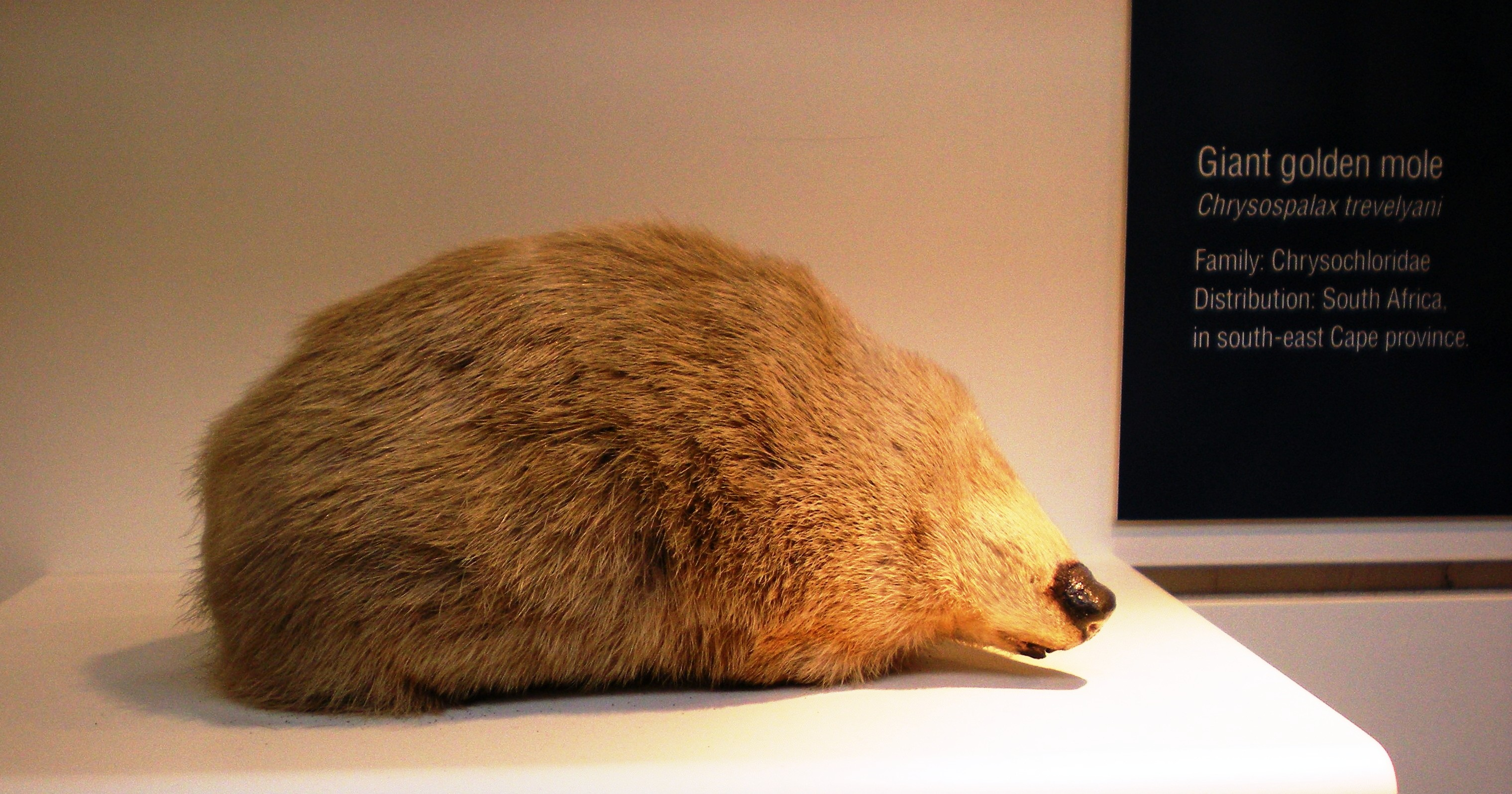 Chrysospalax trevelyaniNatural History Museum of London